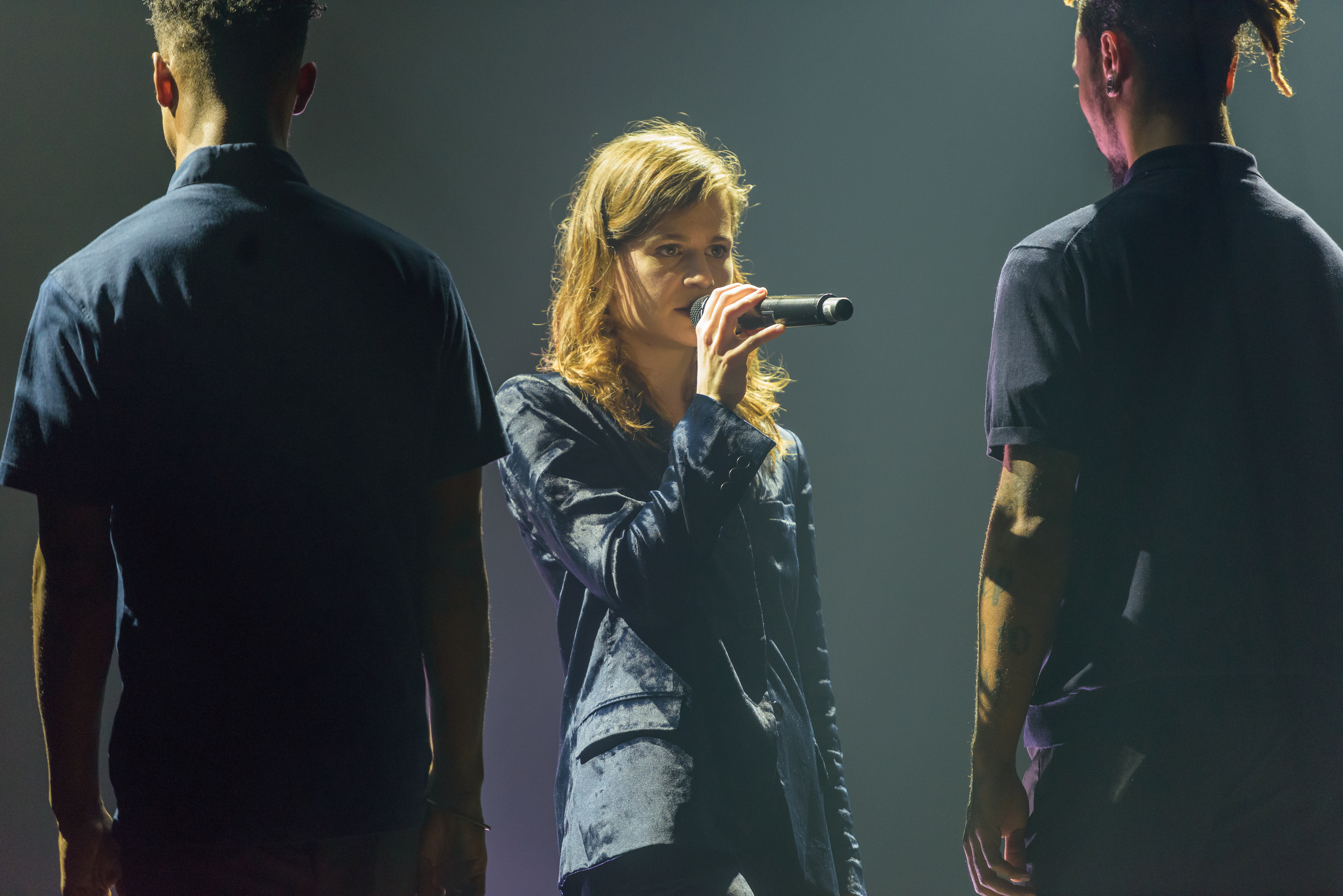 November 11, 2015 Webster Hall, Grand Ballroom New York, NY